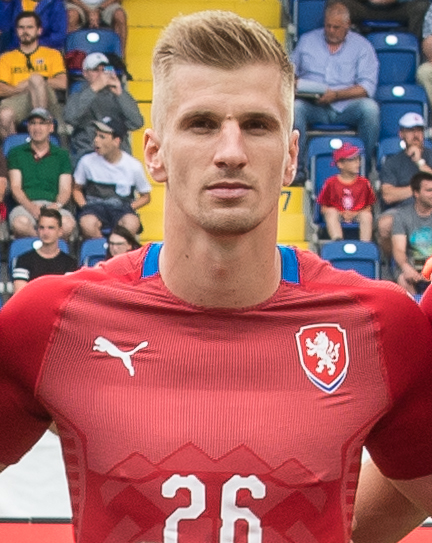 1/6/18St. Poelten, Austria, sports, football, International friendly - Australia vs Czech Republic. Image shows the team of Czech Republic.